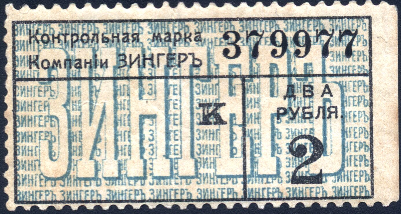 A Russian Empire saving stamp used to pay trade credit for a merchandise sold by Singer Corporation producing sewing machines. The stamp had a 2-ruble value.